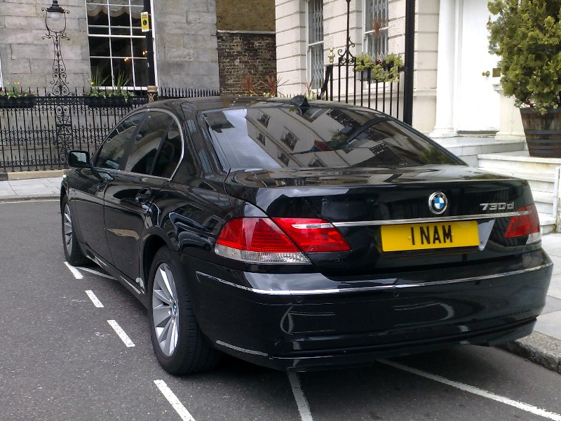 Diplomatic car of the Namibian embassy in London with a vanity number plate (1 NAM)